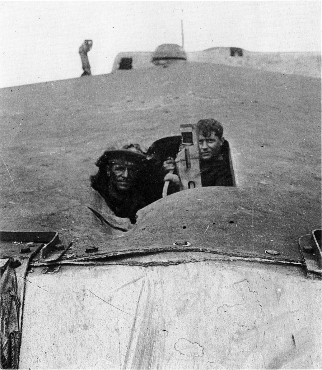 Damage to the roof of HMS Tiger's 'X' turret received during the Battle of Jutland; Imperial War Museum image SP 1597